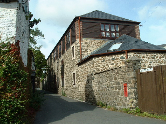 Former Tannery, Burraton Coombe, Saltash. A former Tannery, Burraton Coombe, Saltash, Cornwall, now converted into dwellings.